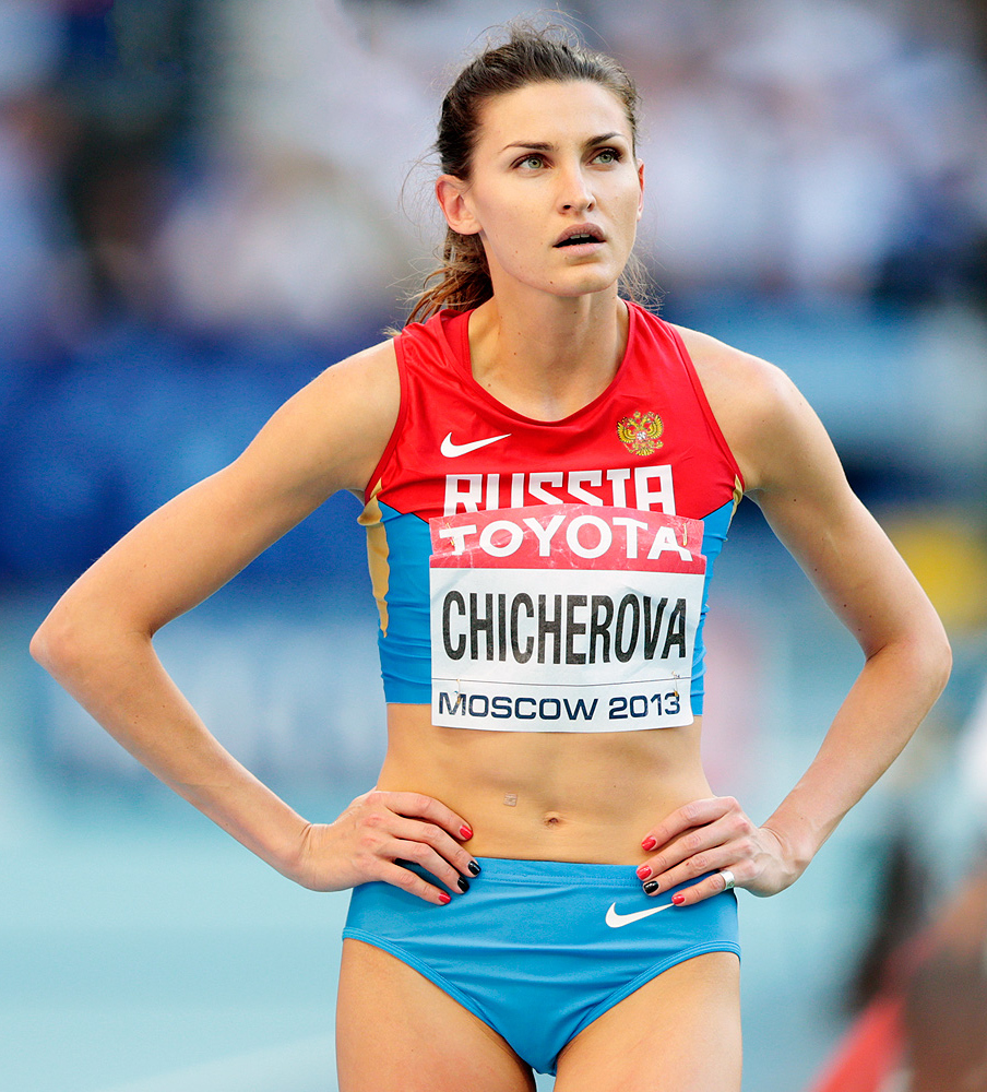 Anna Chicherova on 14th IAAF World Championships in Athletics